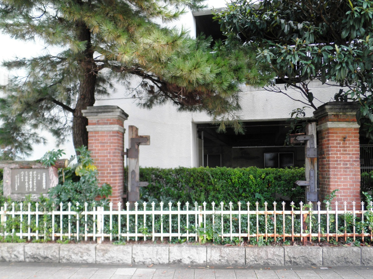 The west gate of the base of the Imperial Japanese Army 18th Infantry Regiment.